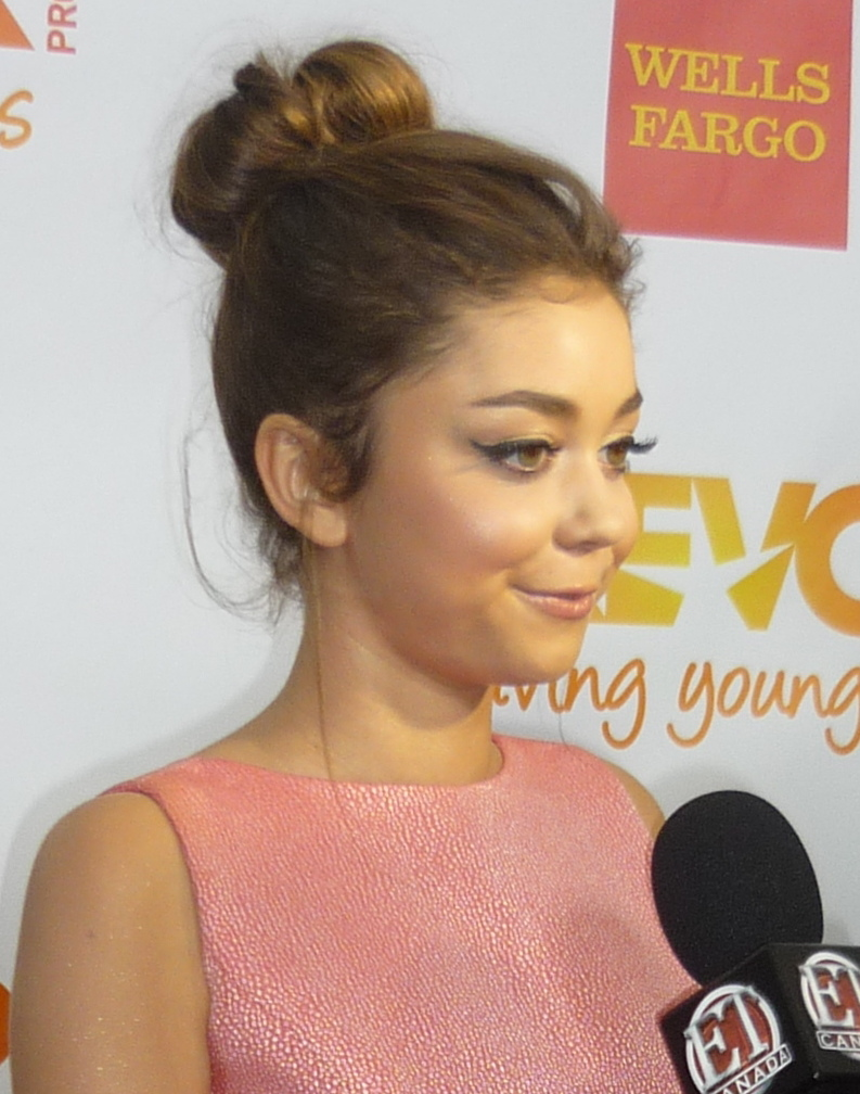 Actress Sarah Hyland on the red carpet at the Trevor Project's 2012 Trevor Live held at The Hollywood Palladium.